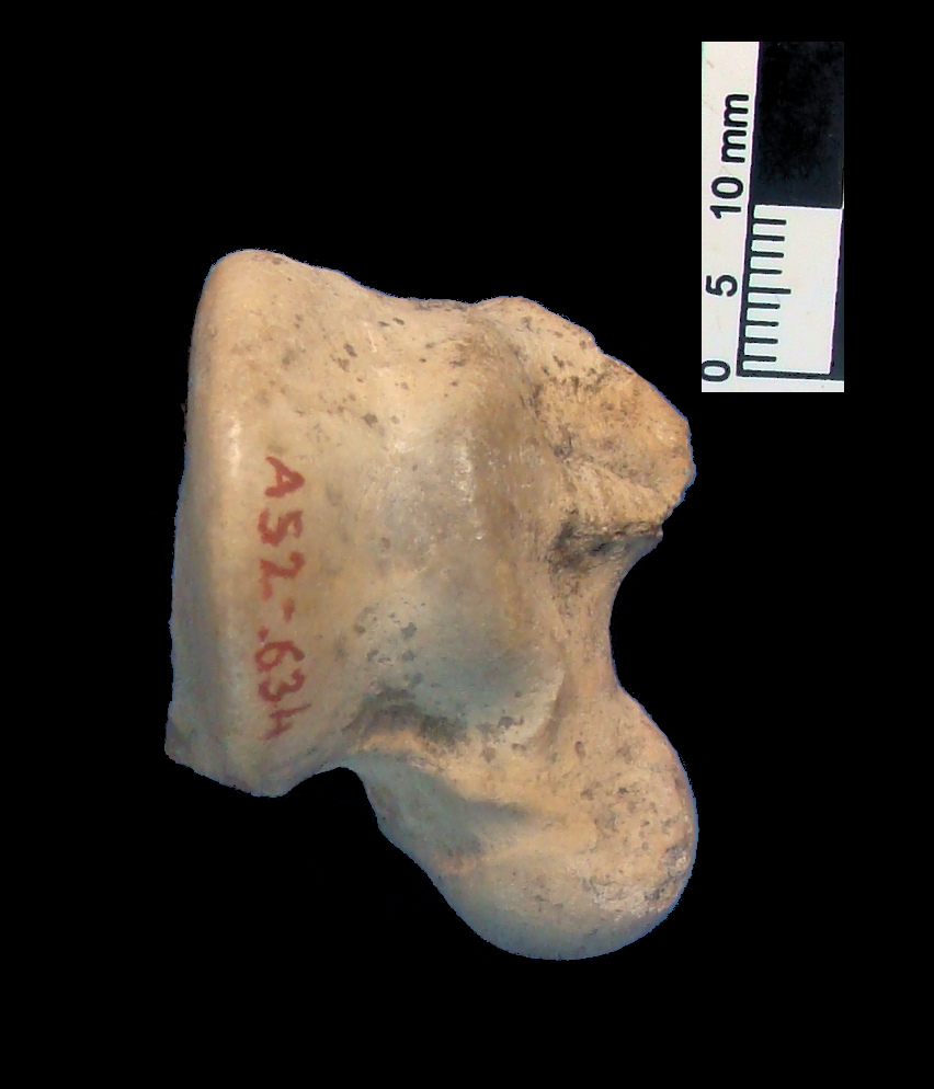 Trachytherus right astragalus, housed at Museo Argentino de Ciencias Naturales (Argentina)